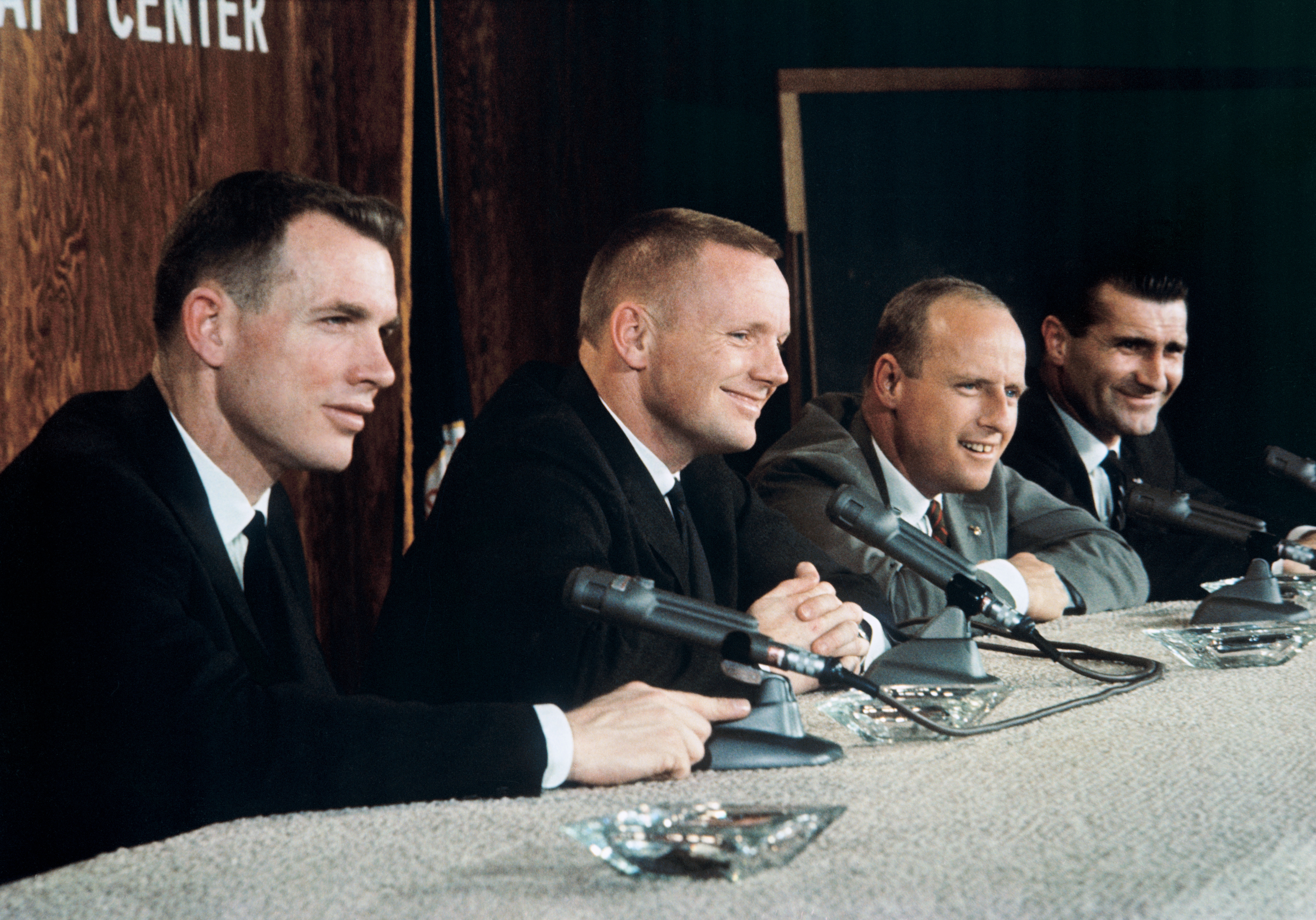 The Gemini-VIII crews answer questions by newsmen at an MSC press conference. From left to right: Astronauts David R. Scott, Neil A. Armstrong, Charles Conrad, Jr., and Richard F. Gordon. MSC, HOUSTON, TX CN